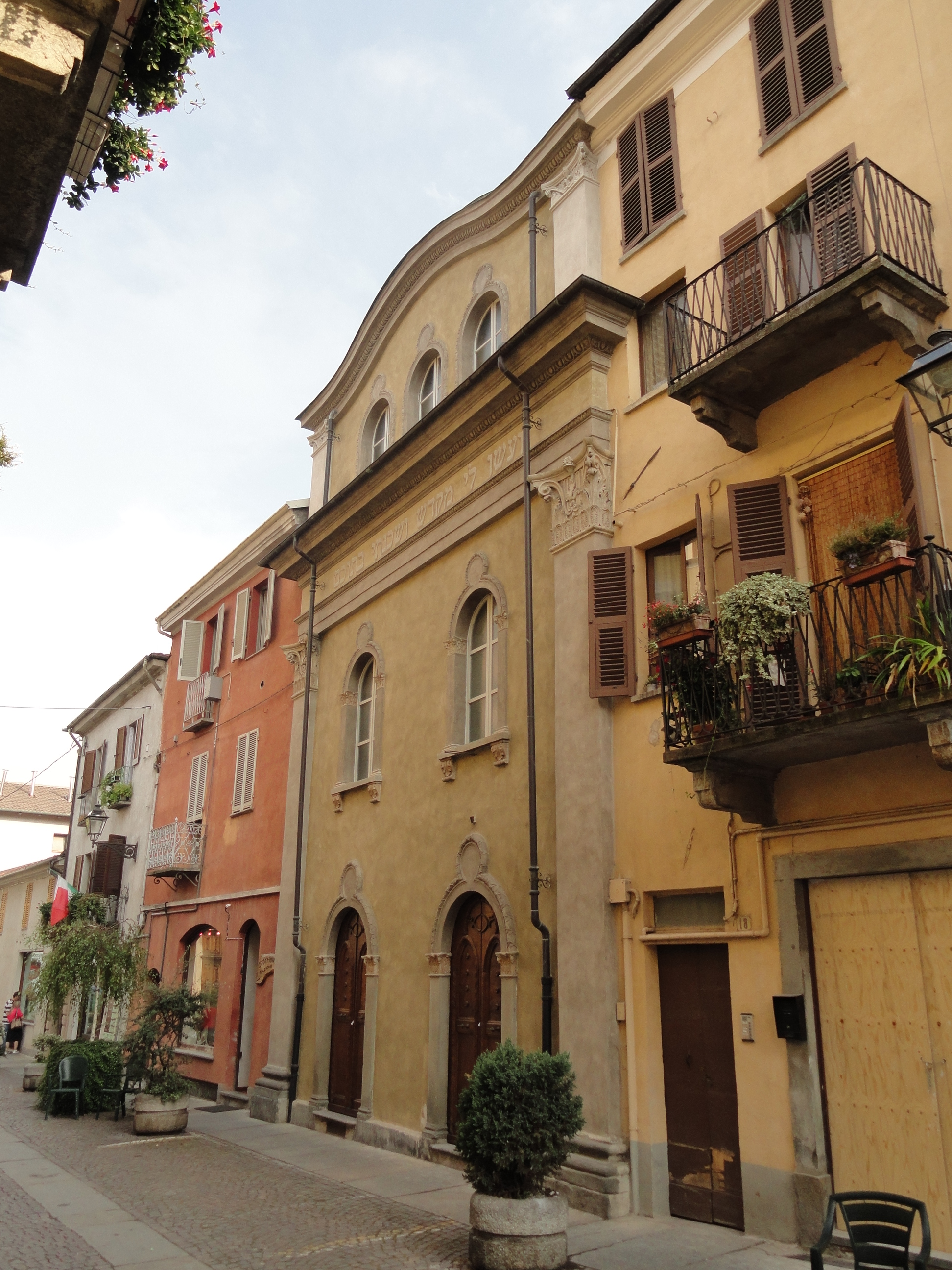 Synagogue of Cuneo (Piemonte - Italy) - General view in the Contrada Mondovi